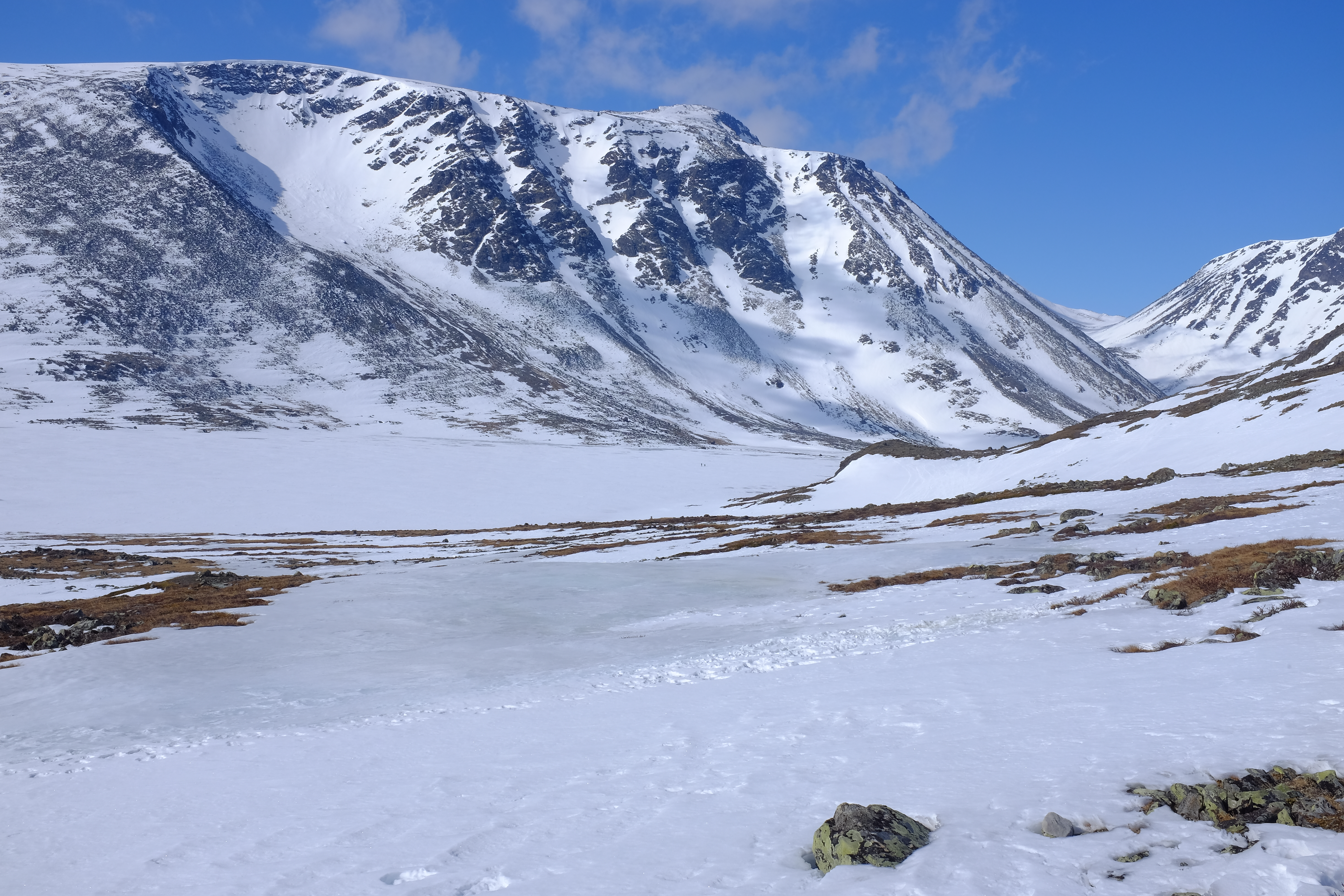 View inwards Steinbudalen valley and Ryggjehøe peak